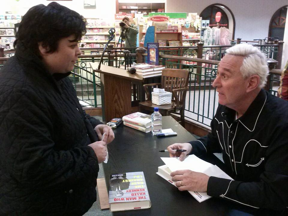 meeting roger stone